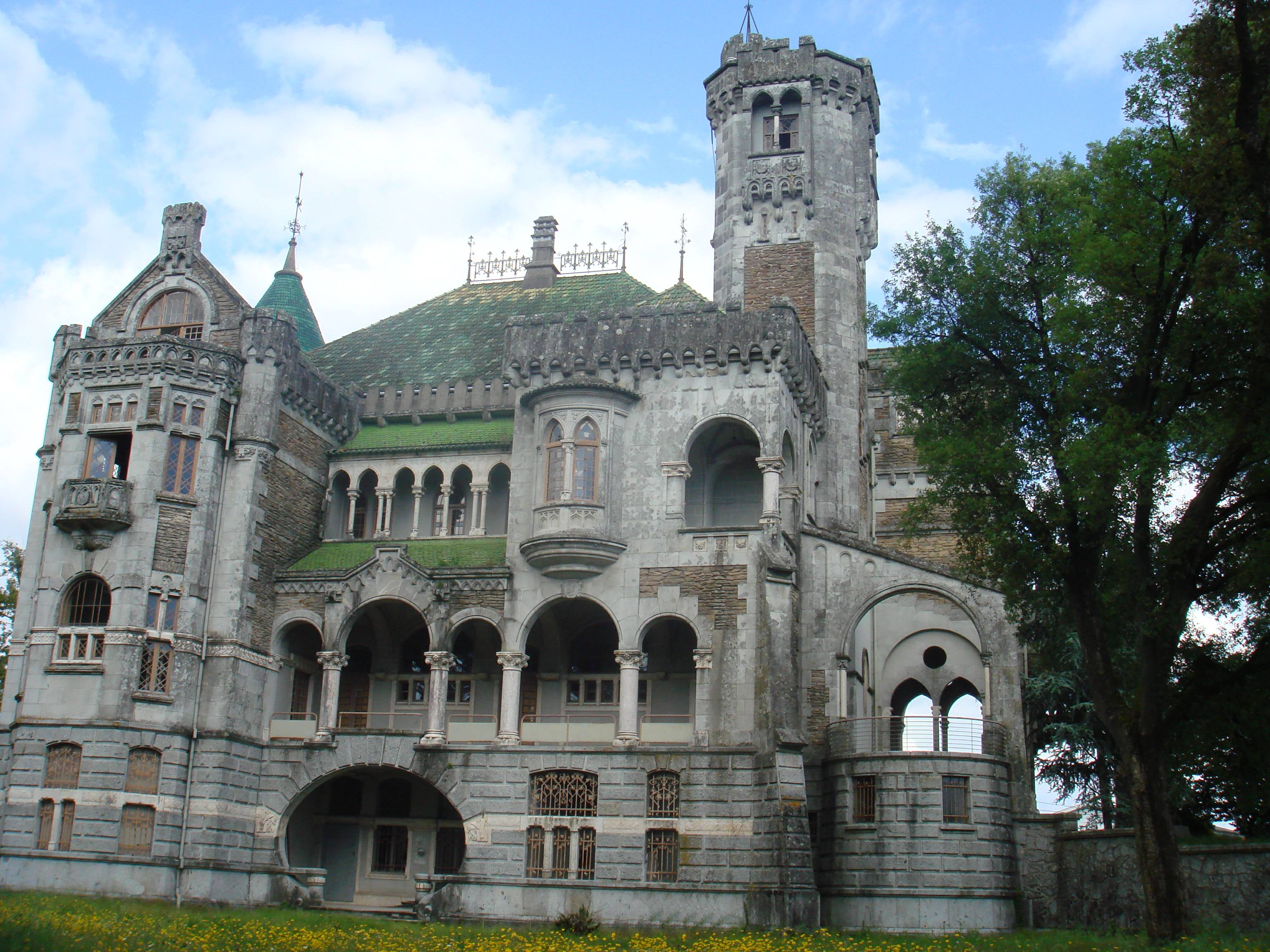 Dona Chica Castle in Braga, Portugal